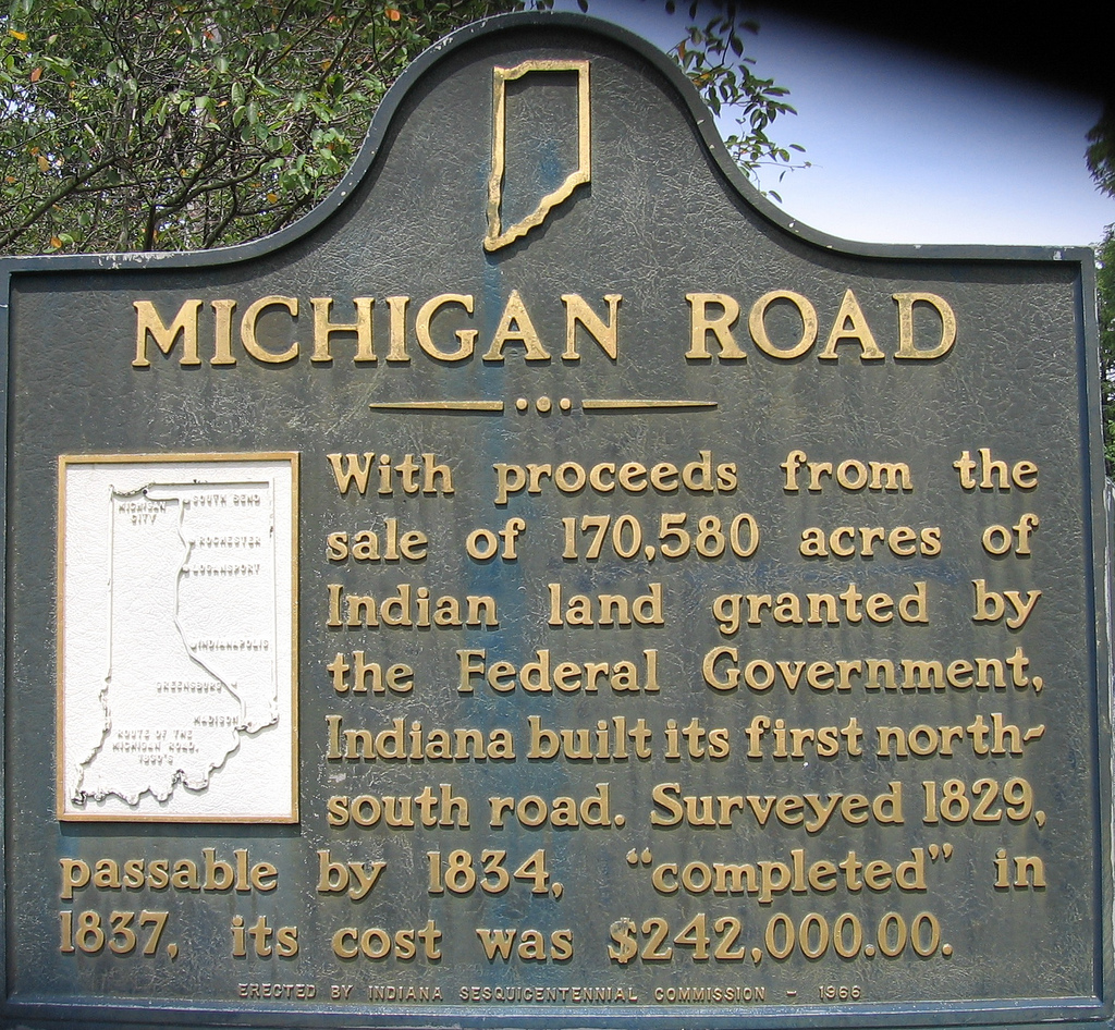 Historical marker for the Michigan Road, located along the western side of U.S. Route 421 north of 121st Street, northeast of Zionsville in Boone County, Indiana, United States.